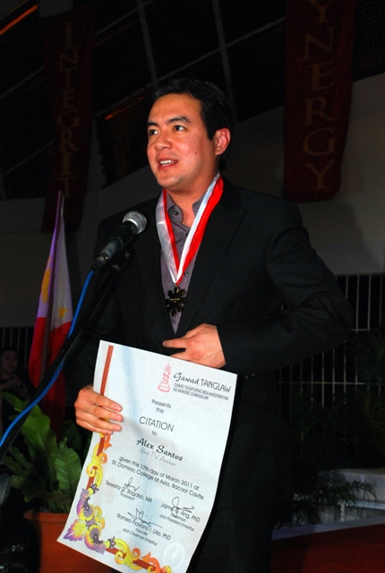 Newsman Alex Santos receiving his Best TV Anchor Award at the 9th annual Gawad Tanglaw.